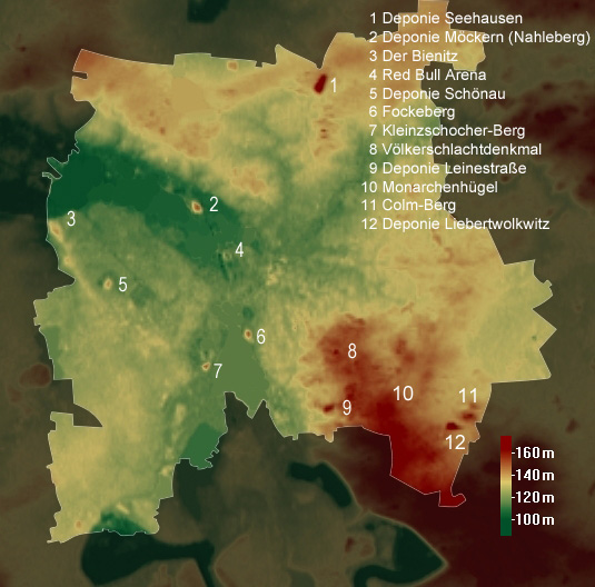 Map was created with 3DEM and SRTM-data ( boundary was drawn by myself with GIMP